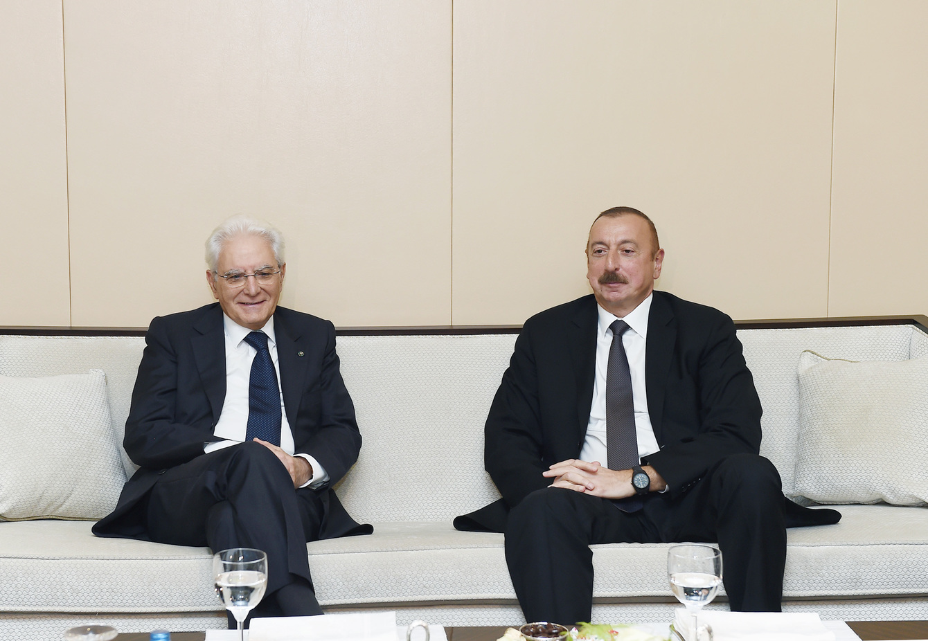 Ilham Aliyev, Italian President Sergio Mattarella attended inauguration of polypropylene plant constructed in Sumgayit Chemical Industrial Park under SOCAR Polymer project